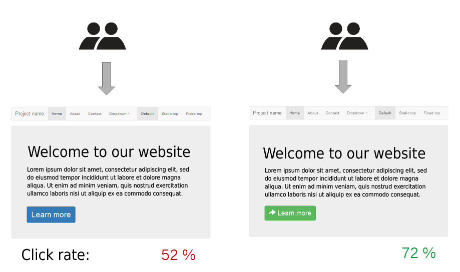 Example of A/B testing on a website. This file was derived from A-B testing simple example.png: - "Clic" was translted to English, and the selfref Wikipedia example changed to lorem ipsum filler.